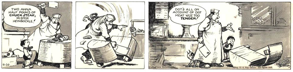 Copy of the comic strip Reglar Fellers. A search was done for renewals in artwork for the years 1965 and 1966 There were no renewals for Gene Byrnes or Reg'lar Fellers. There's no evidence that this comic strip is still under copyright.